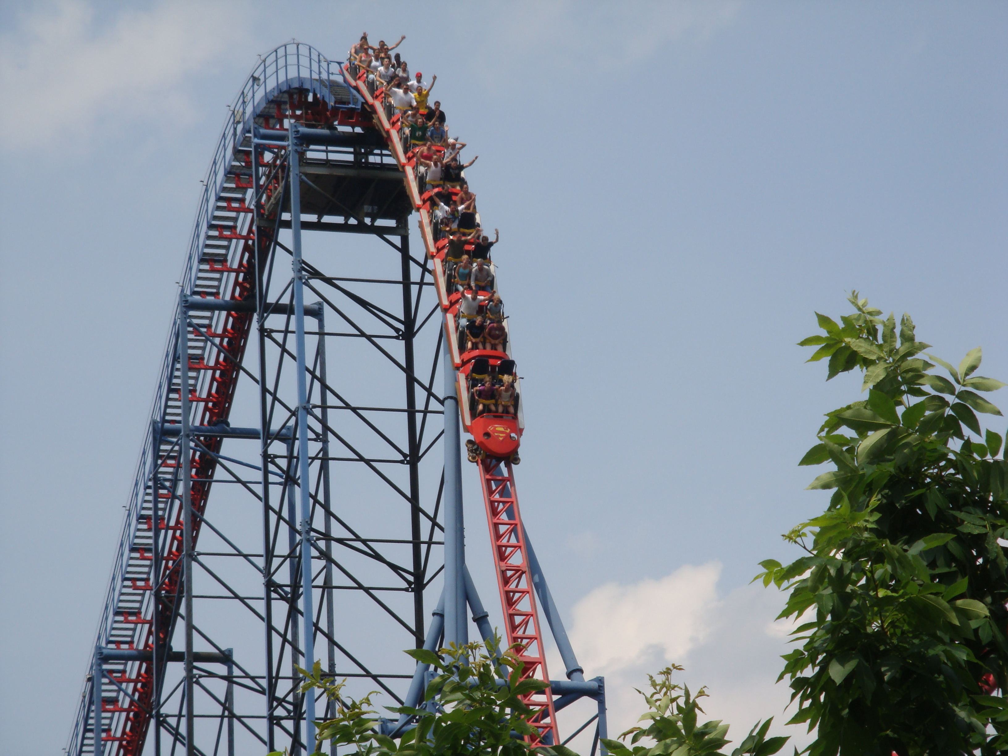 Superman Ride of Steel